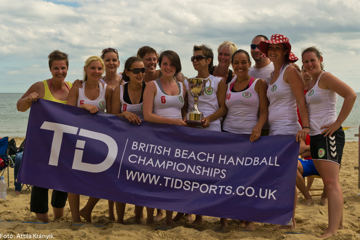 British Beach Handball Championship